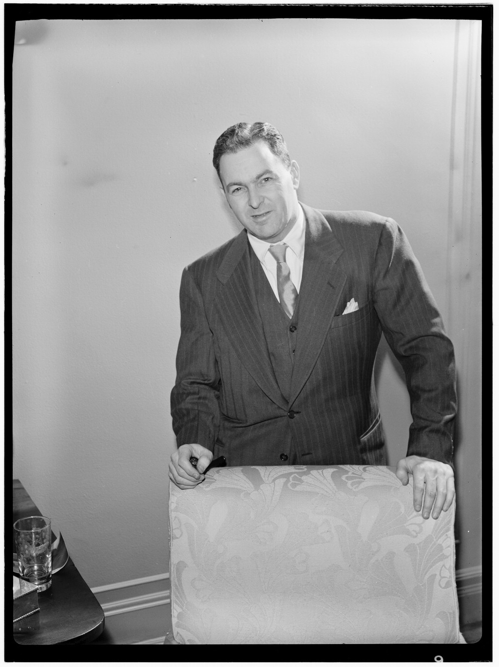 Irving Kolodin by Gottlieb, William P., 1917-, photographer. [Portrait of Irving Kolodin, New York, N.Y., between 1946 and 1948] 1 negative : b&w ; 3 1/4 x 4 1/4 in. Notes: Gottlieb Collection Assignment No. 189 Purchase William P. Gottlieb Forms part of: William P. Gottlieb Collection (Library of Congress). Subjects: Kolodin, Irving, 1908- Music critics--1940-1950. Format: Portrait photographs--1940-1950. Film negatives--1940-1950. Rights Info: Mr. Gottlieb has dedicated these works to the public domain, but rights of privacy and publicity may apply. Repository: (negative) Library of Congress, Prints & Photographs Division, Washington D.C. 20540 USA, Part Of: William P. Gottlieb Collection (DLC) 99-401005 General information about the Gottlieb Collection is available at Persistent URL: Call Number: LC-GLB23- 1331